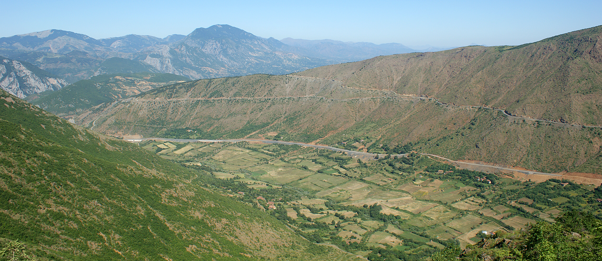 Plan i Bardhë west of the mountain pass Qafa e Buallit in Mat region, Albania Old road on the hill, new road rruga e Arbërit in the plain